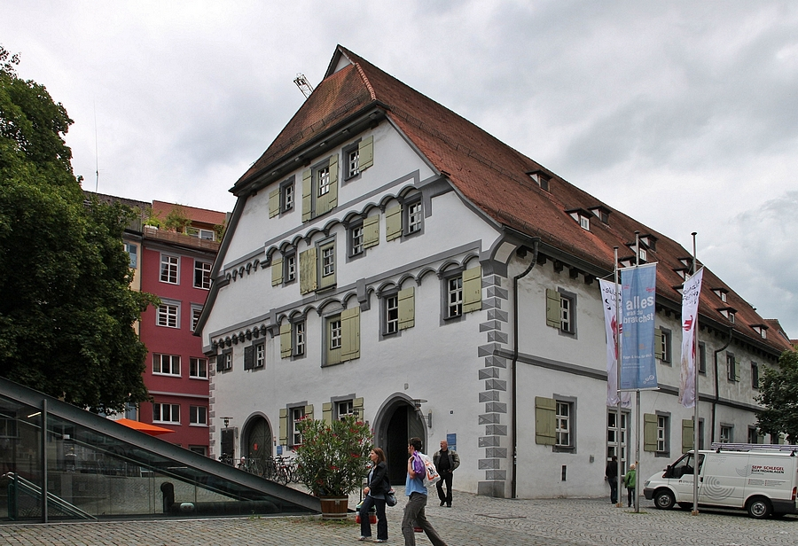 This image shows the former granary ("Kornhaus", built 1451/52) in Ravensburg. The granary is nowadays used as library.